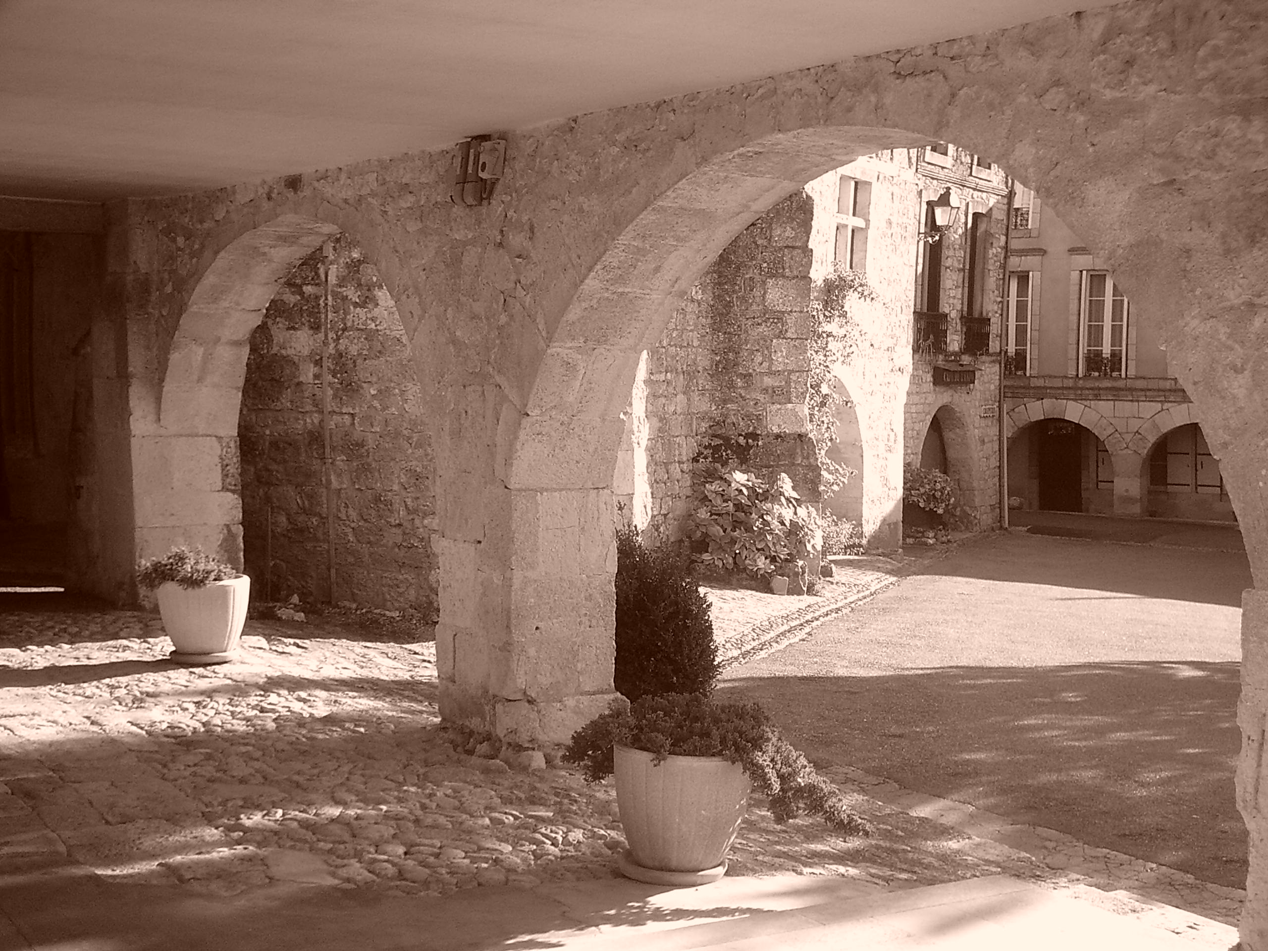 Principal town place arcades.